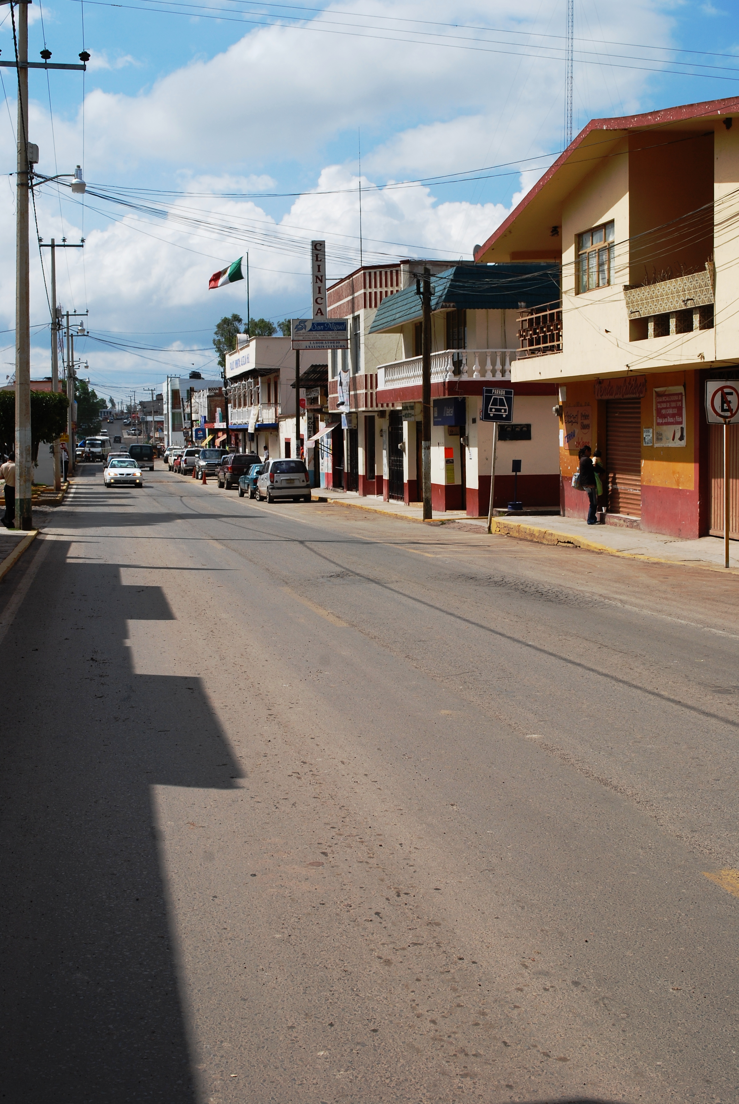 The Huasca-Tulancingo highway as it passes through Acatlan, Hidalgo, Mexico